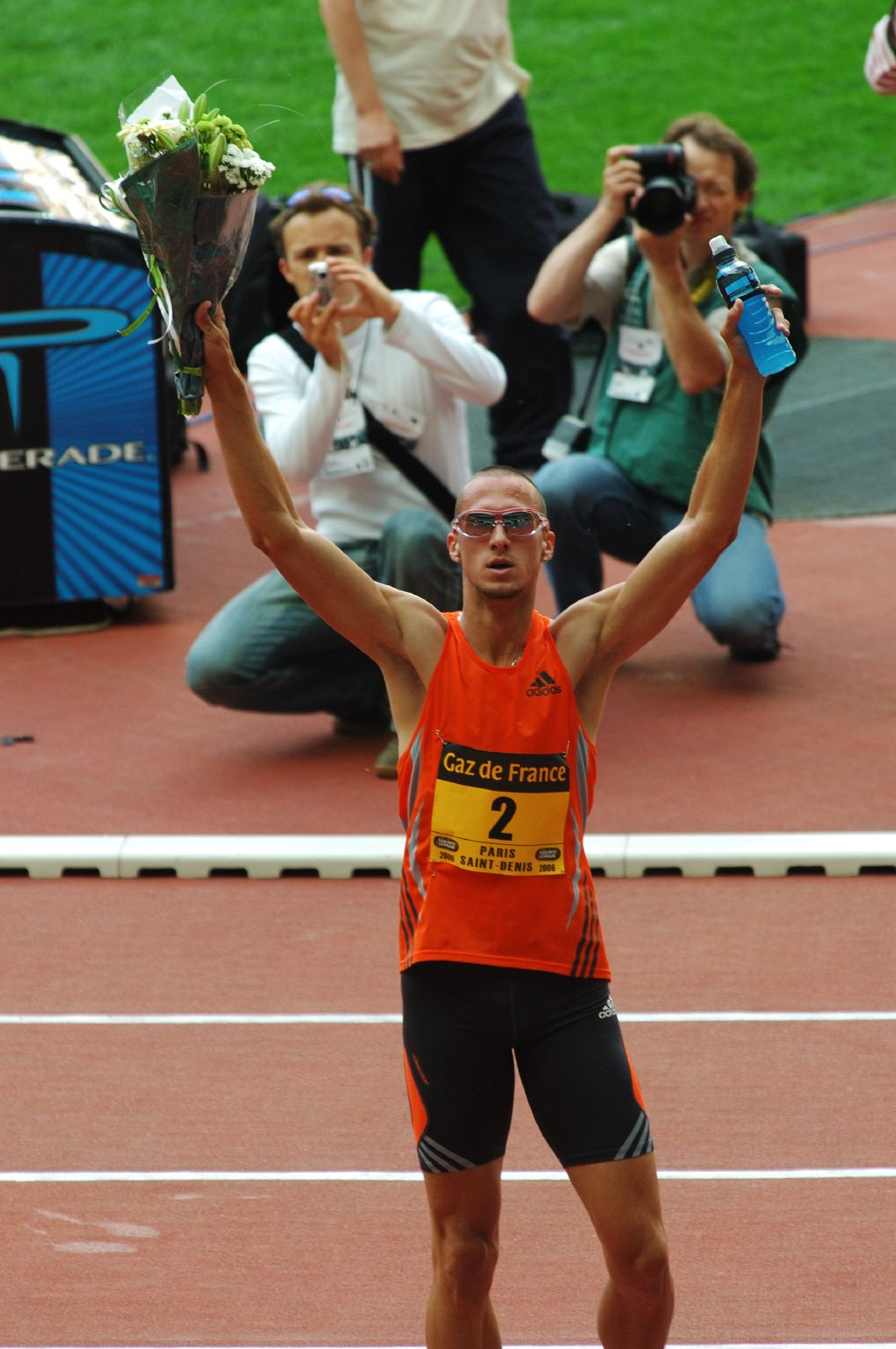 Jeremy Wariner wins 400m - Golden League 2006, Gaz de France, Paris Saint-Denis.